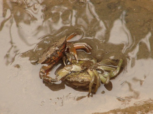 Whole crabs at Crab's Hole One red crab getting the better of one white crab. (Or are they being very friendly?) Two of many to be found at the bottom of the muddy gulleys here at the Wash National Nature Reserve. The surface is littered with the remains of smaller crabs who presumaby have fallen prey to the birds.